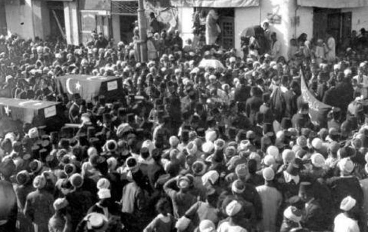 protesters in Zefta, Egypt 1919